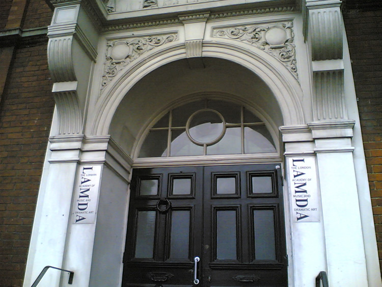 Picture of the main London Academy of Music and Dramatic Art (LAMDA) teaching space at 155 Talgarth Rd, London W14 9DA